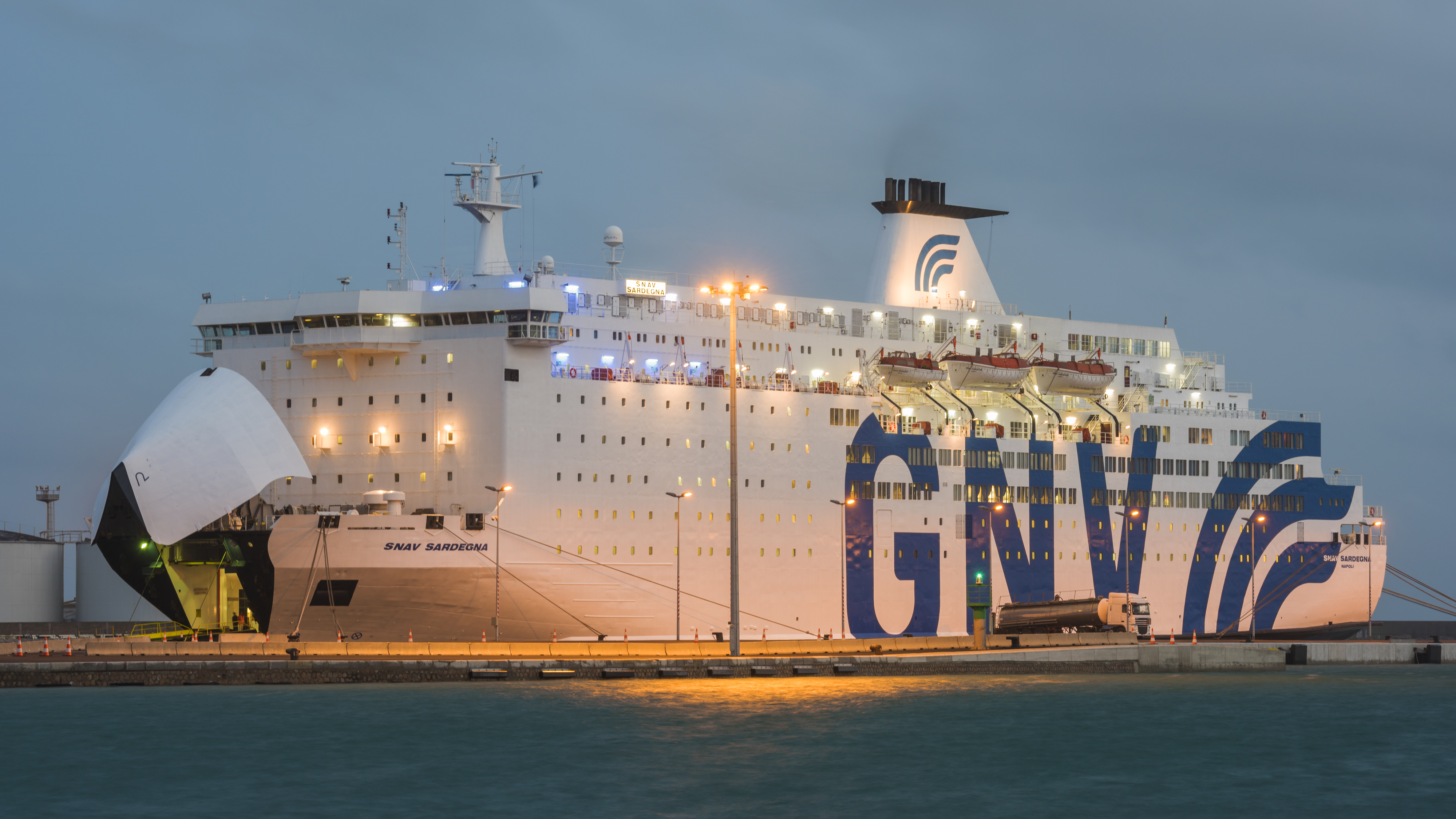 SNAV Sardegna (ship, 1989). Sète, Hérault, France.